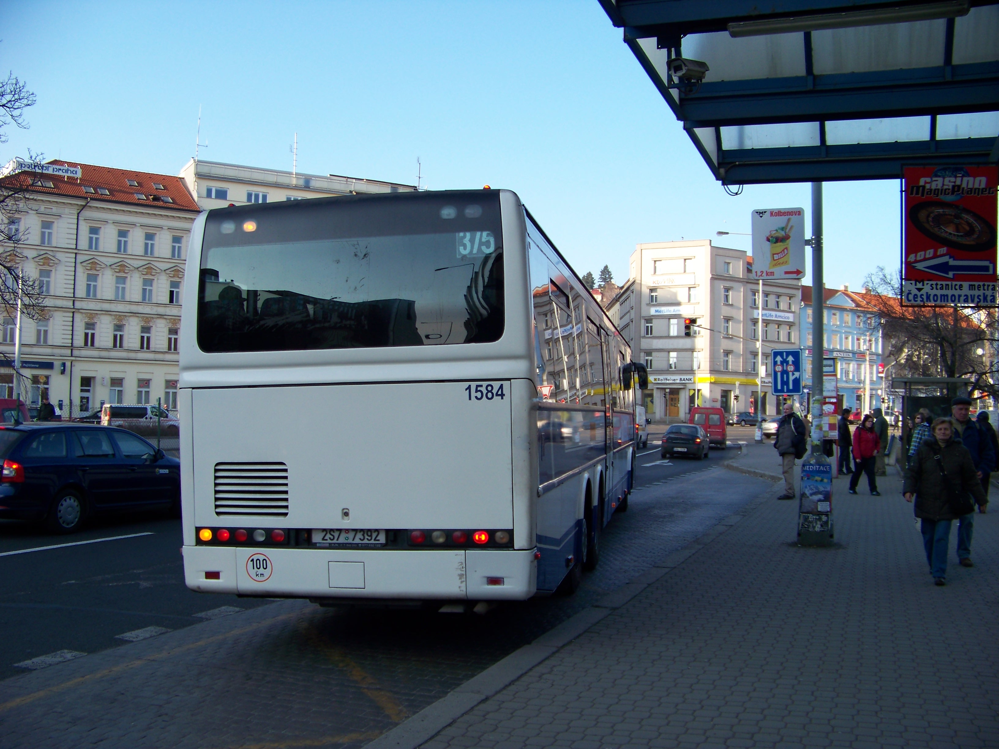 Prague-Vysočany, the Czech Republic. UNO Square, Vysočanská station, a bus Irisbus Ares of ČSAD Střední Čechy.